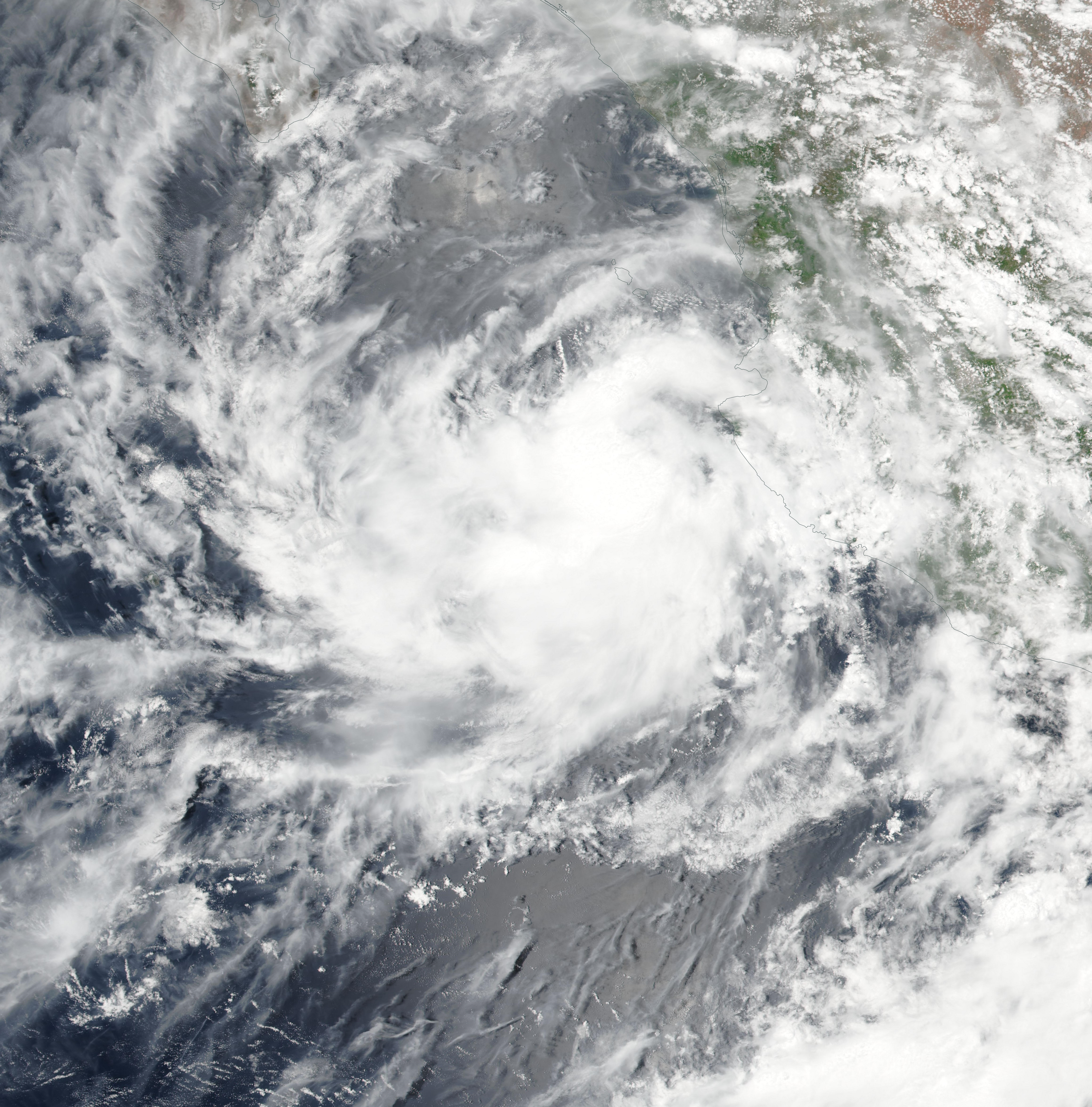 A Suomi NPP visible satellite image of Tropical Storm Javier taken at 19:55z on August 7.